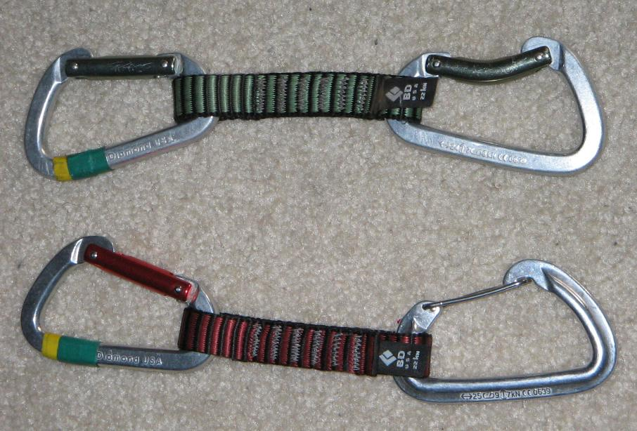 Photograph of two quickdraws.